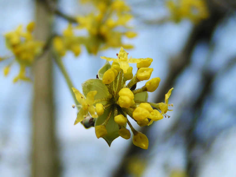 European Cornel, flower detail. Photo taken on March 23, 2010, Rotterdam, Netherlands.